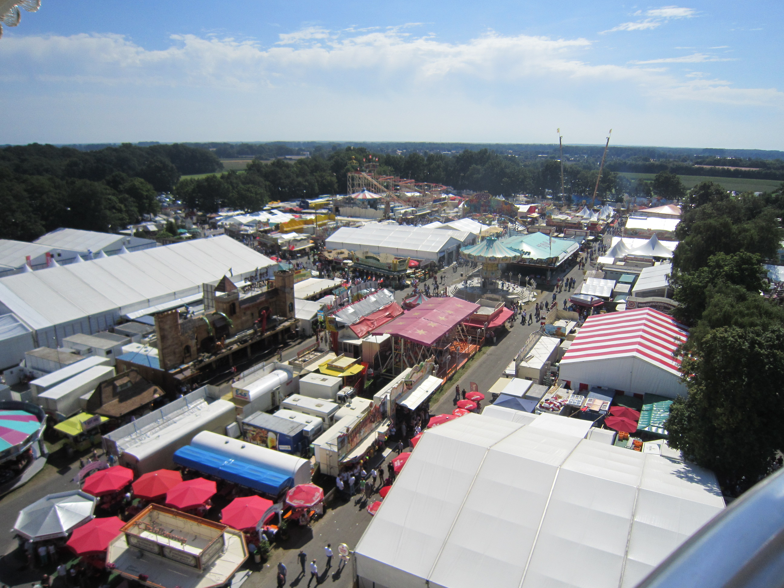 View to Stoppelmarkt in Vechta from the wonder-wheel